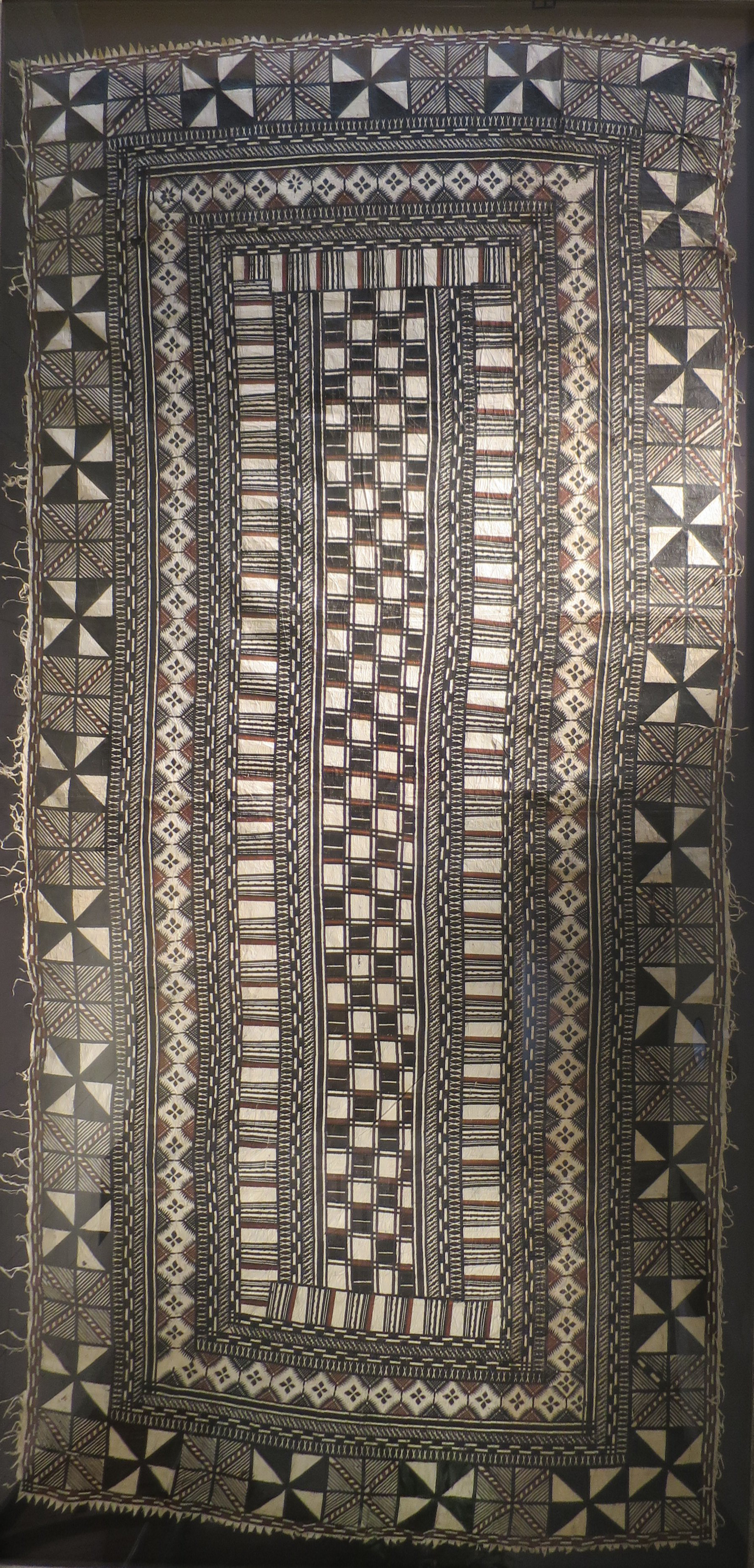 Fijian royal tapa cloth, 19th century, Neiman Marcus Collection, Honolulu store